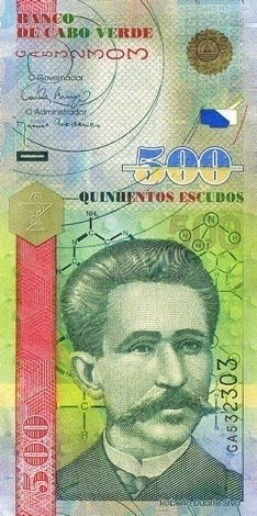 500 CVE bank note of Cape Verde in vertical position